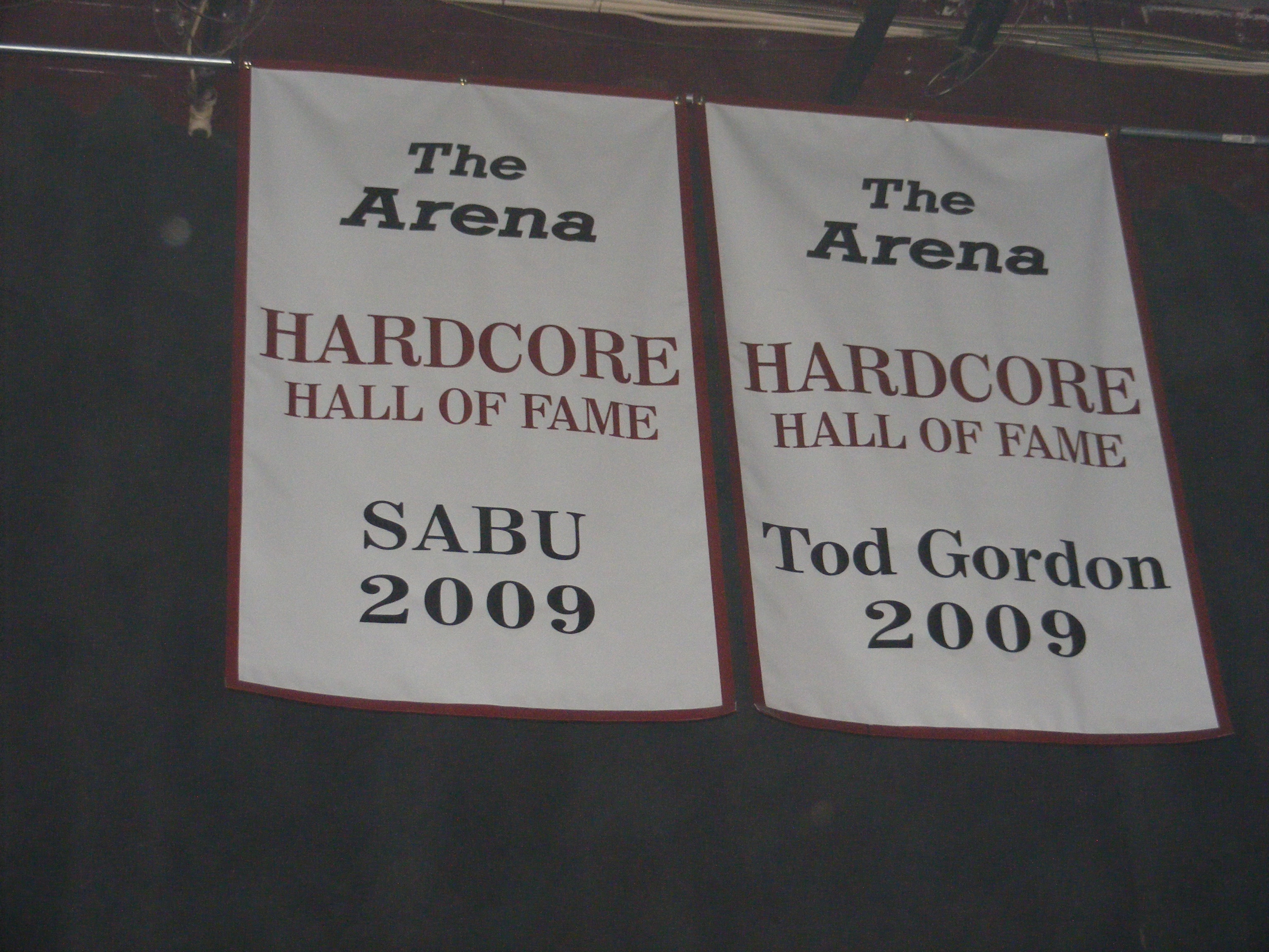 Sabu's and Tod Gordon's Hardcore Hall of Fame banners in the Asylum Arena.